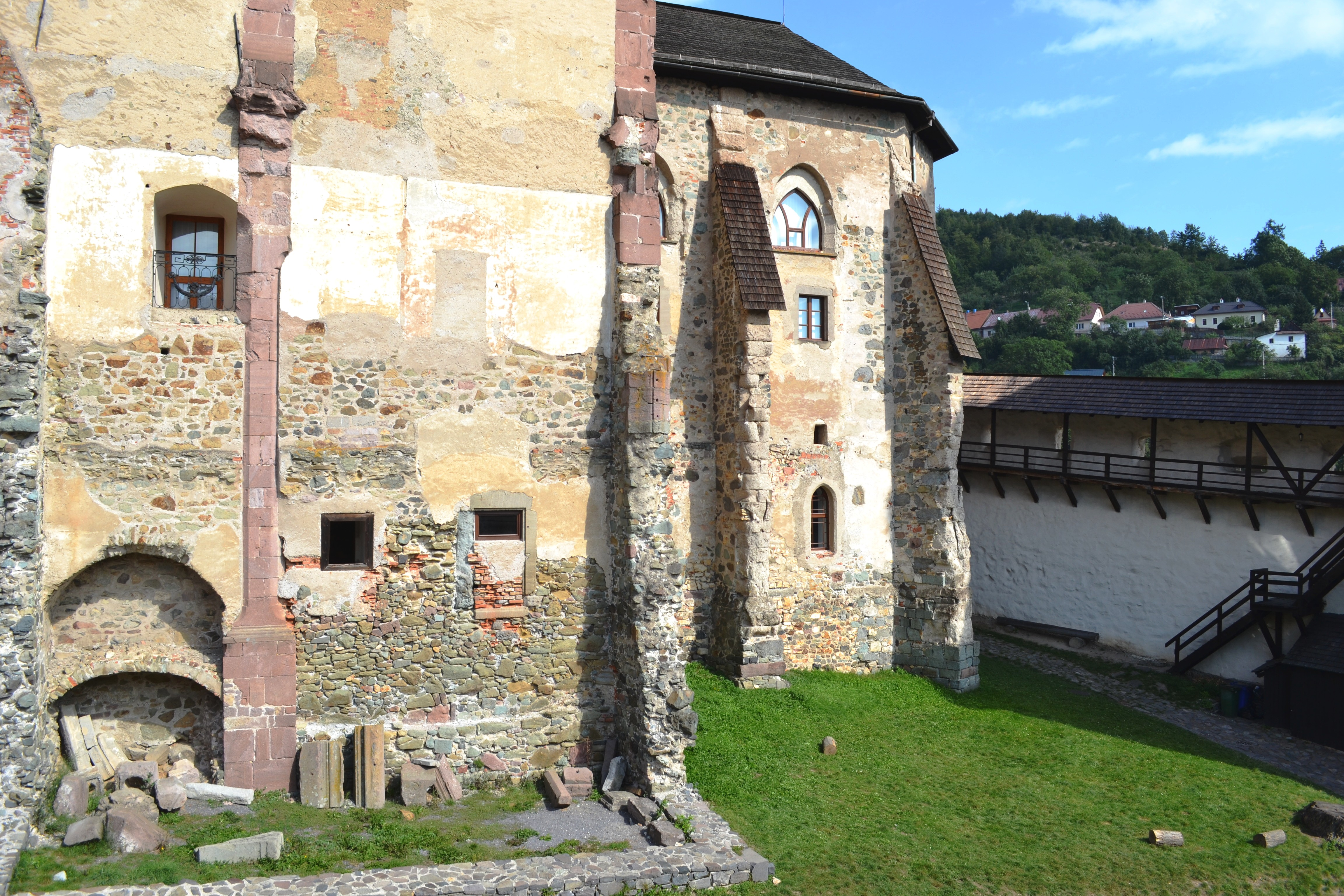 Chapel, Old Castle in Banská ŠtiavnicaSlovenčina: Kaplnka, Starý zámok v Banskej Štiavnici